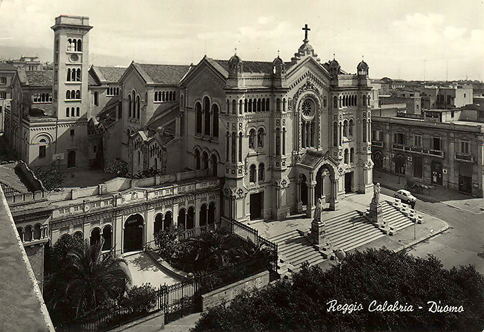 old postcard of Reggio Calabria Chathedral